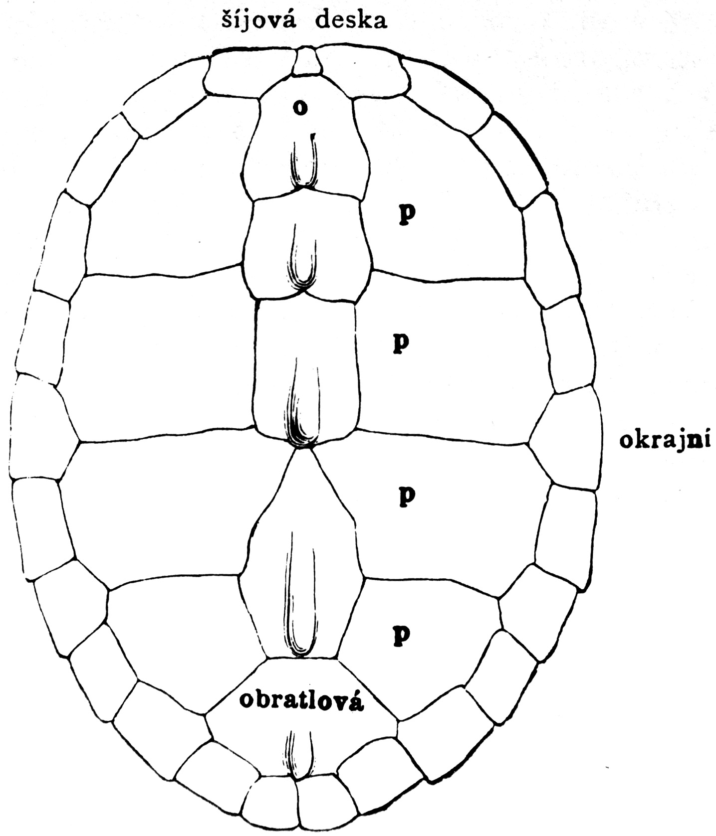 Carapace of a turtle shell.